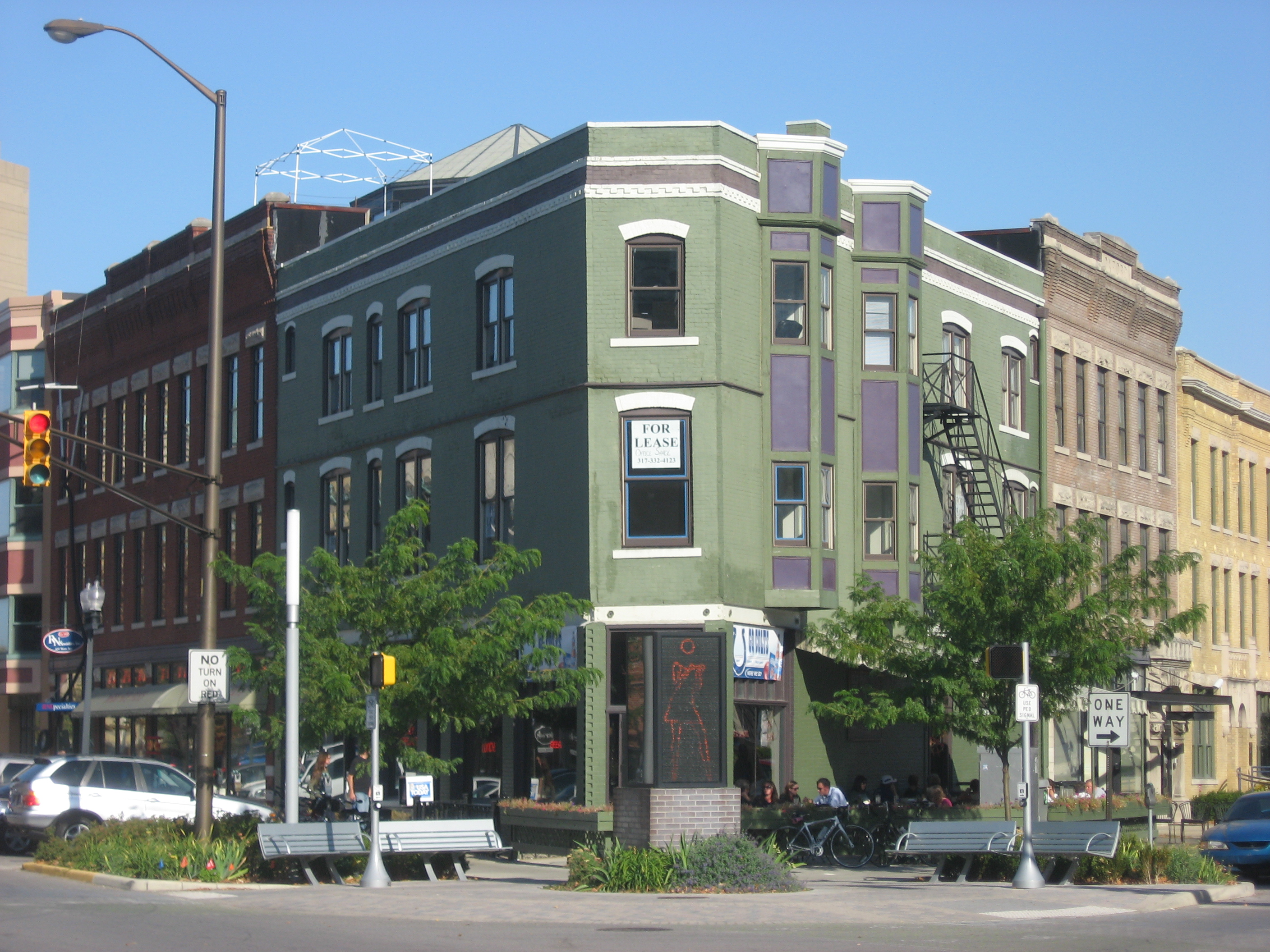 Western point of The Sid-Mar, located at 401-403 Massachusetts Avenue in Indianapolis, Indiana, United States. Built in 1887, it is listed on the National Register of Historic Places, and it is part of the Massachusetts Avenue Commercial District, a Register-listed historic district.